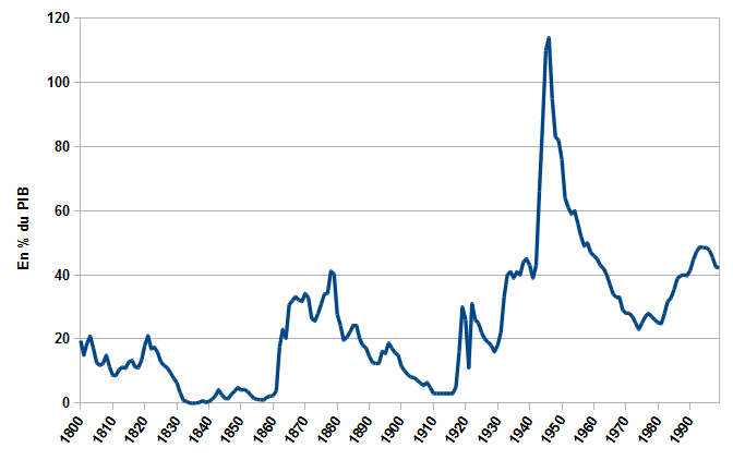 US Federal Debt as a % of GDP from 1800 to 1999. Data from Niall Ferguson.